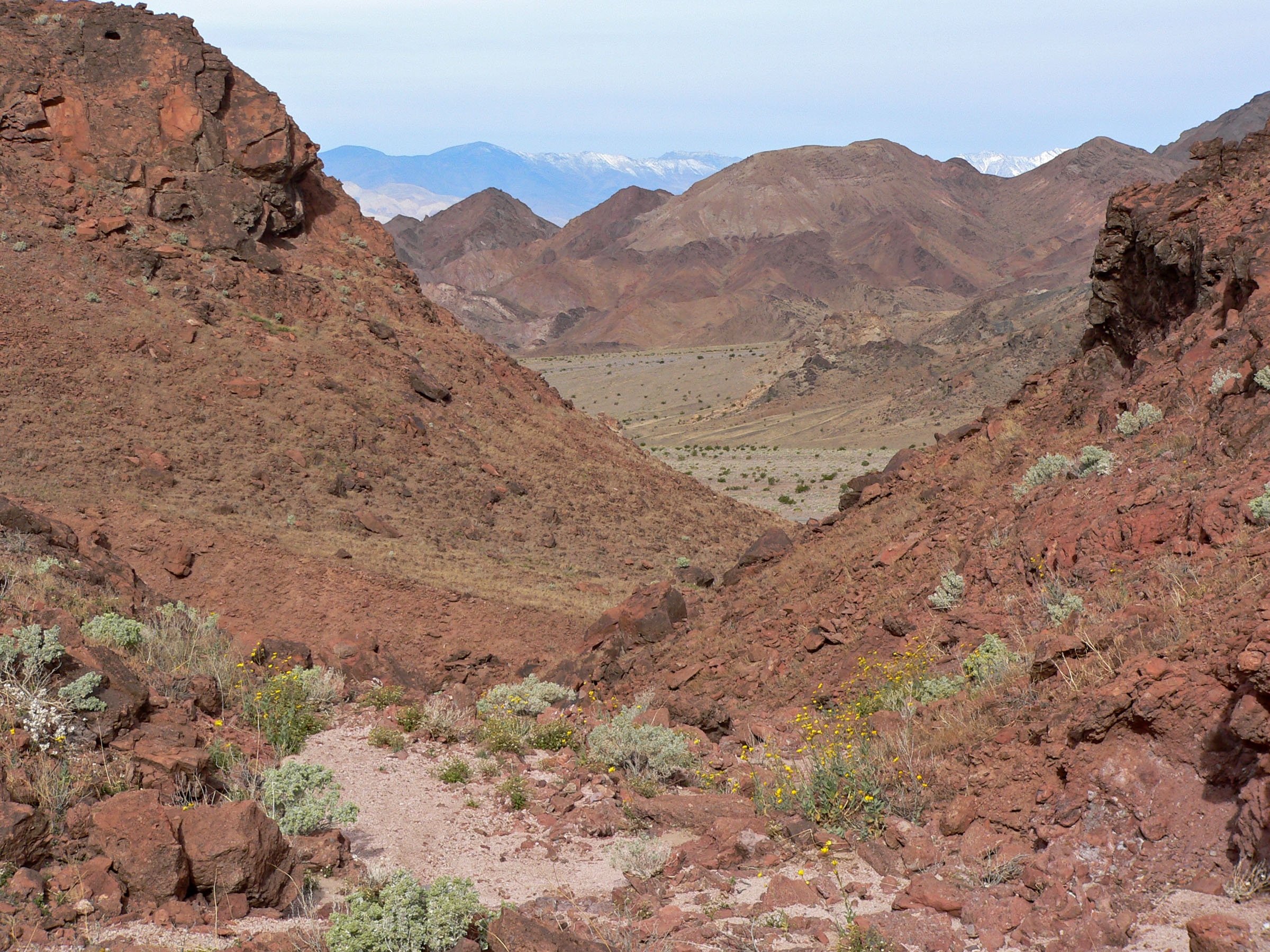 View of gully east of Jubilee Mountain, Death Valley National Park